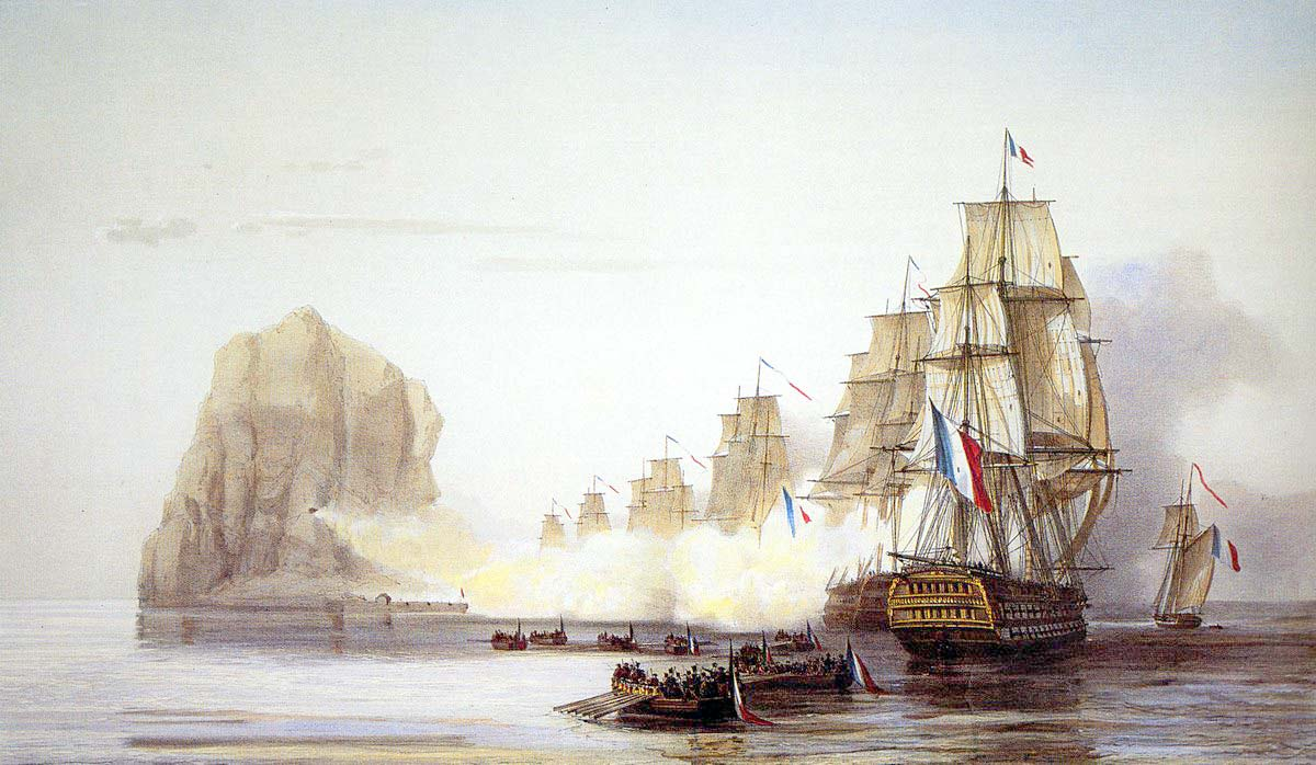 Capture of the Diamond rock